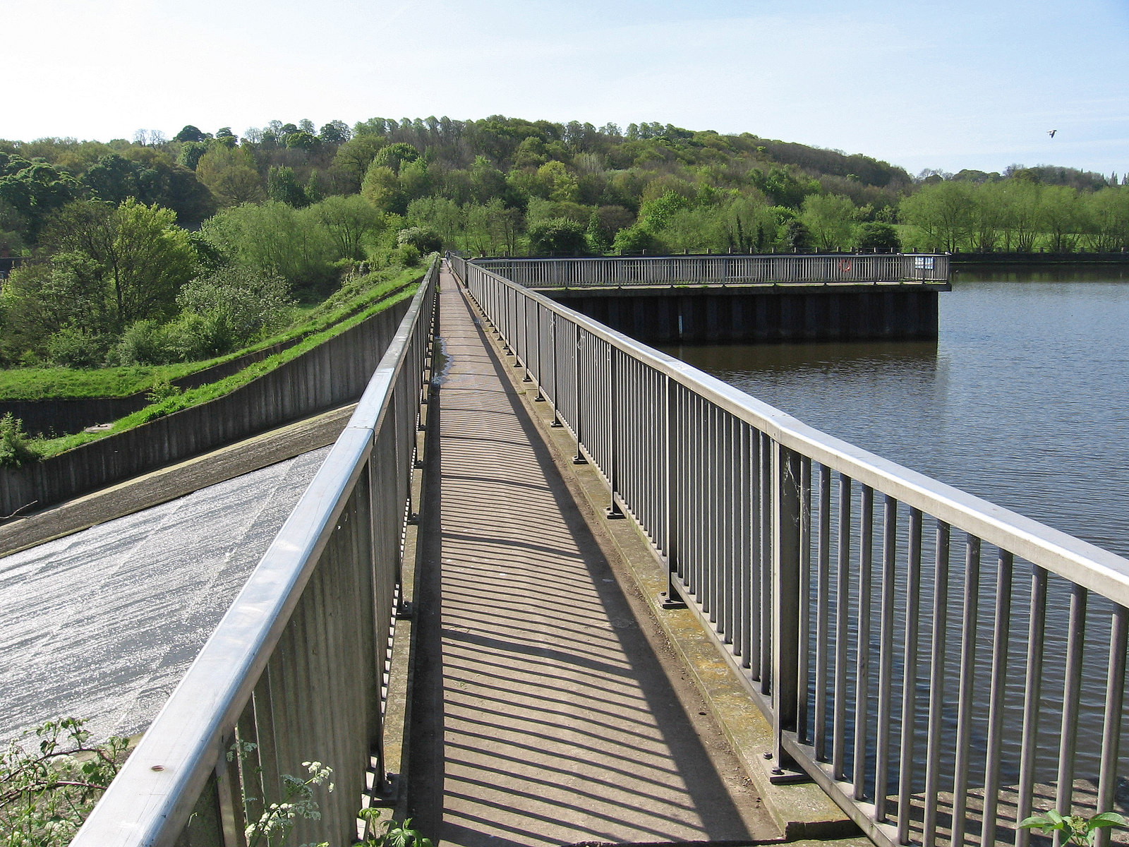 Worsbrough - footbridge over reservoir spillway